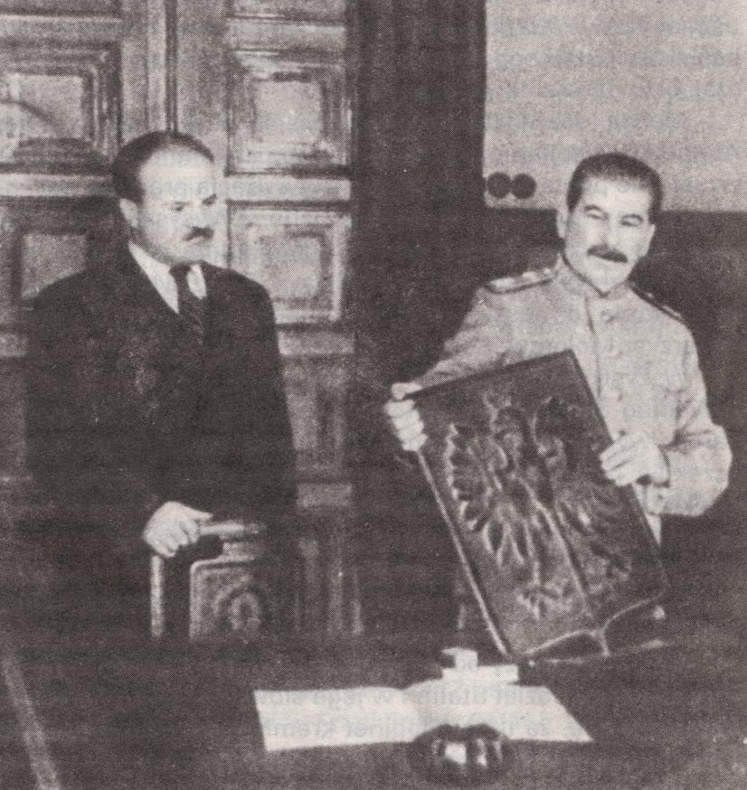 Picture published in the Soviet Union by TASS agency, 15th november 1944 and simultanously by communist paper in Poland "Głos Ludu".Shows: Vyacheslav Molotov, Joseph Stalin and Coat of arms of Poland